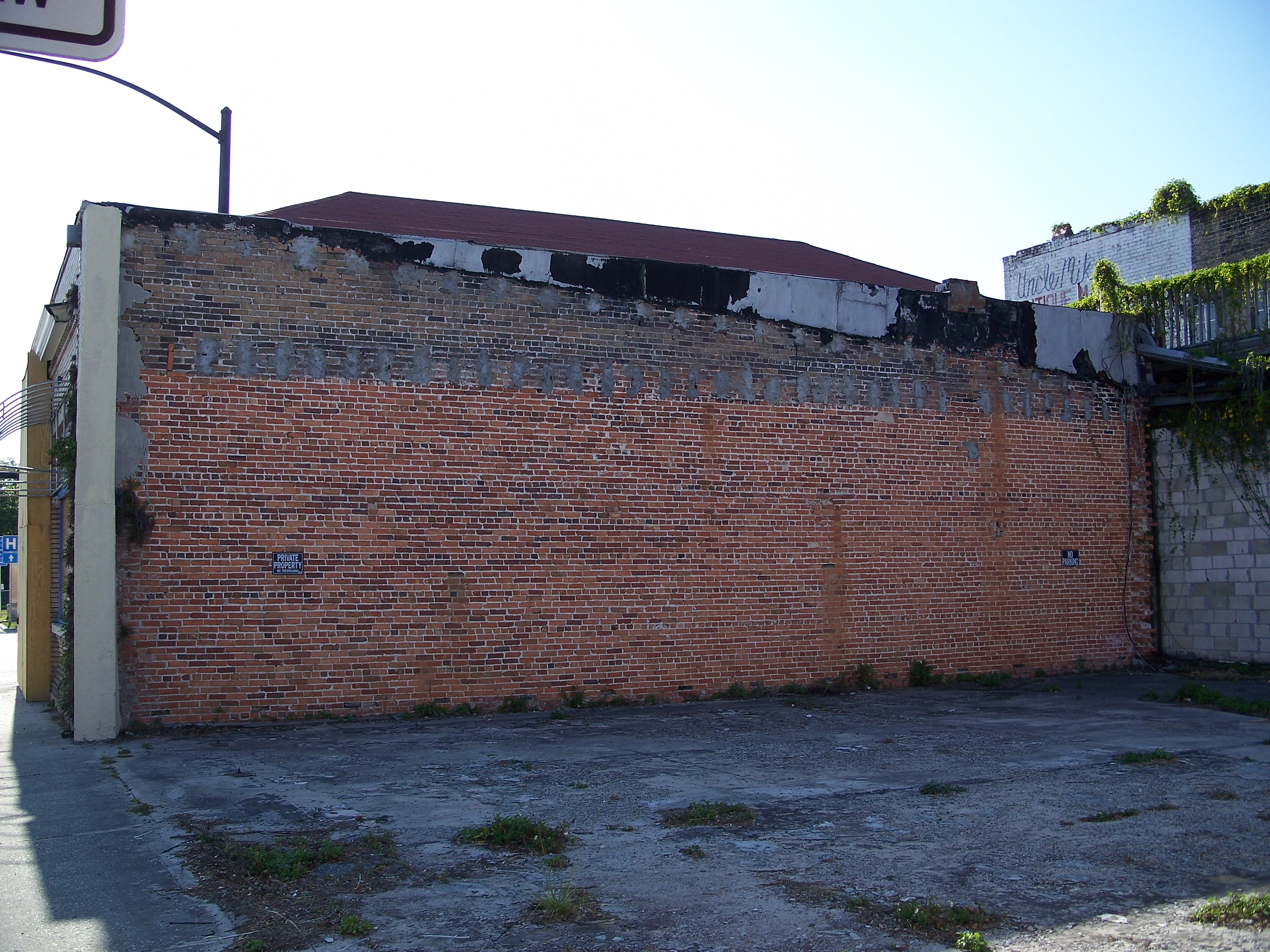 Williston, Florida: Citizens Bank.